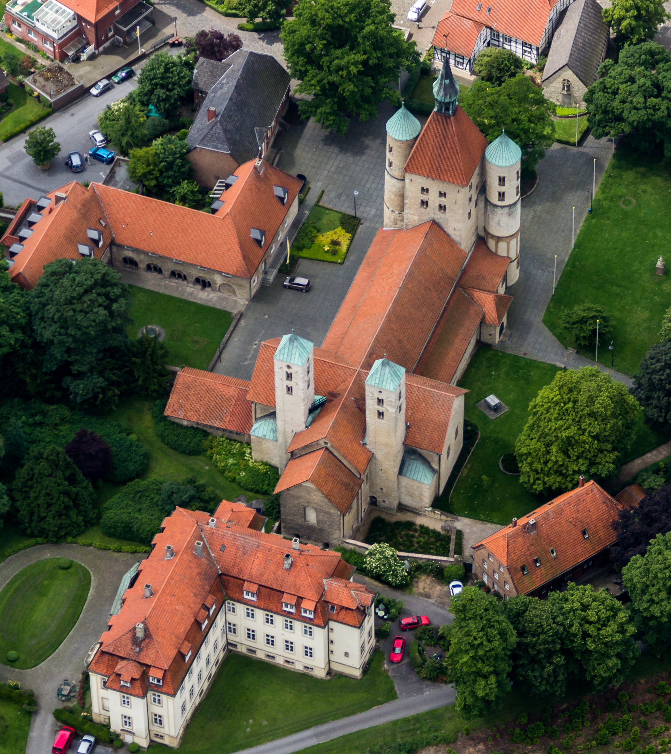 Schloss and St Boniface Church, Freckenhorst, Warendorf, North Rhine-Westphalia, Germany This image shows a heritage building in Germany, located in the North Rhine-Westphalian city Warendorf (no. 134). This image shows a heritage building in Germany, located in the North Rhine-Westphalian city Warendorf (no. 38). This is a photograph of an archaeological site.